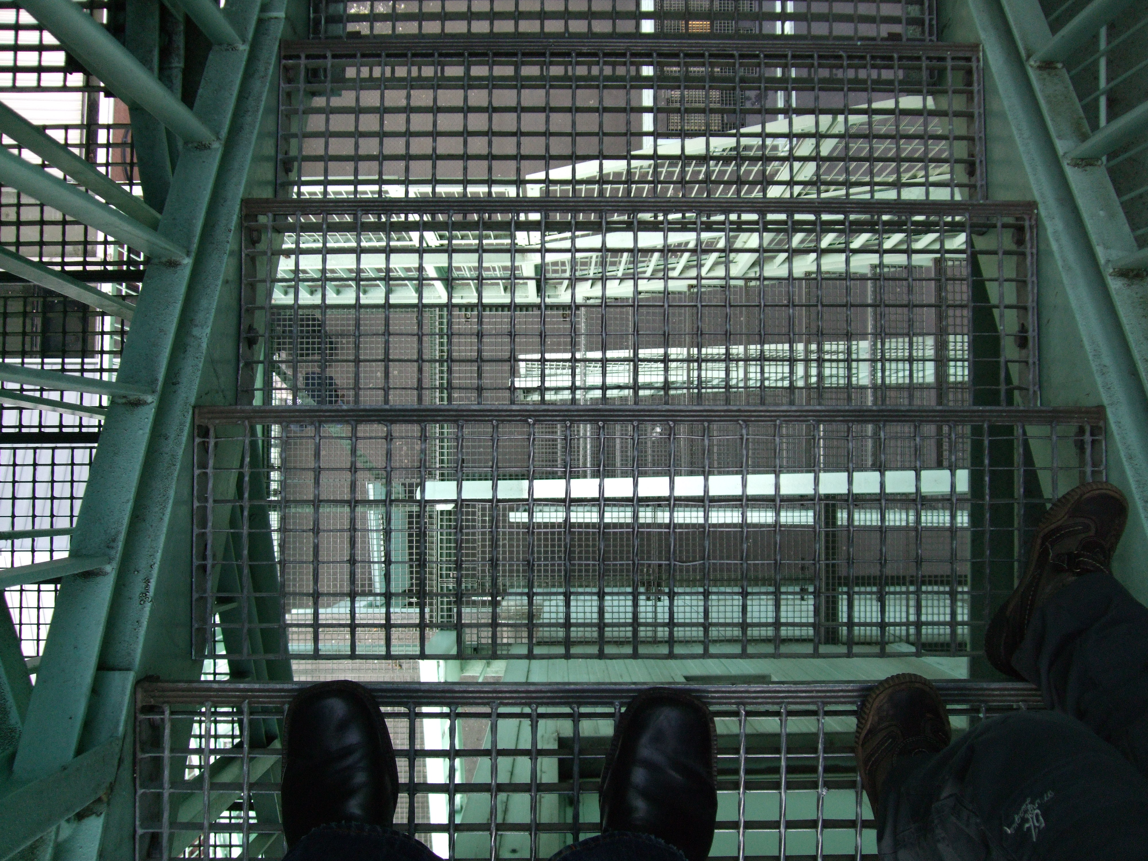 Grating, Bochum